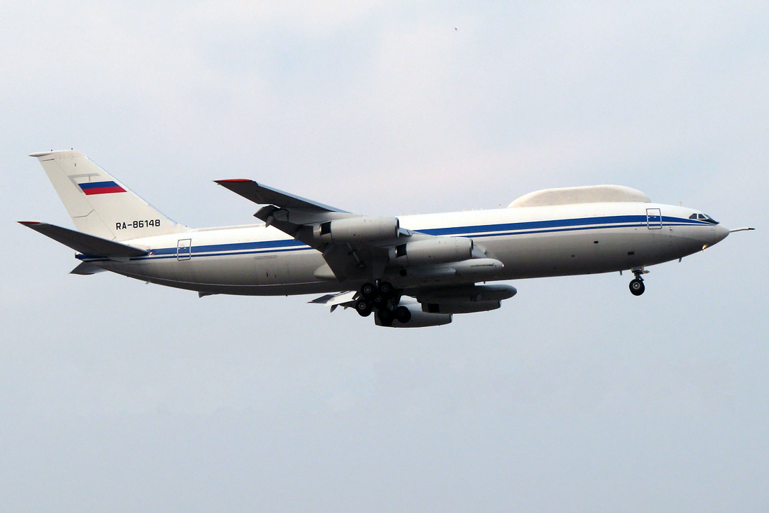 Ilyushin Il-80 airborne command post/communications relay aircraft